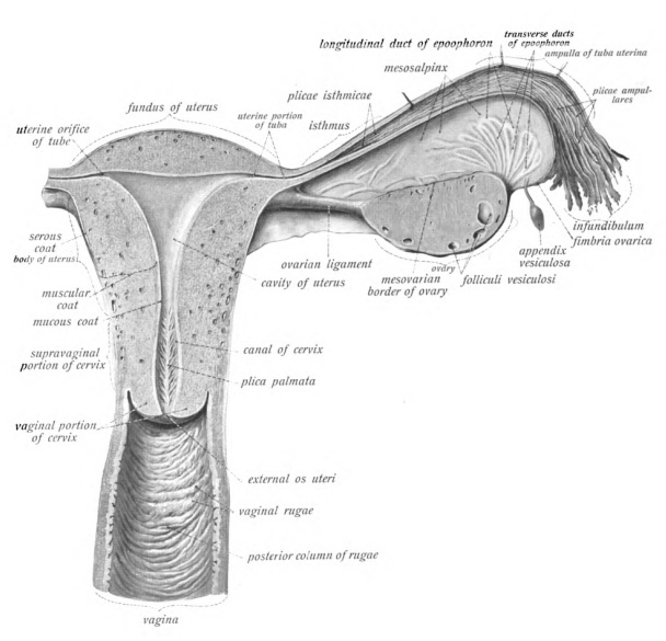 An anatomical illustration from the 1906 edition of Sobotta's Atlas and Text-book of Human Anatomy with English Terminology